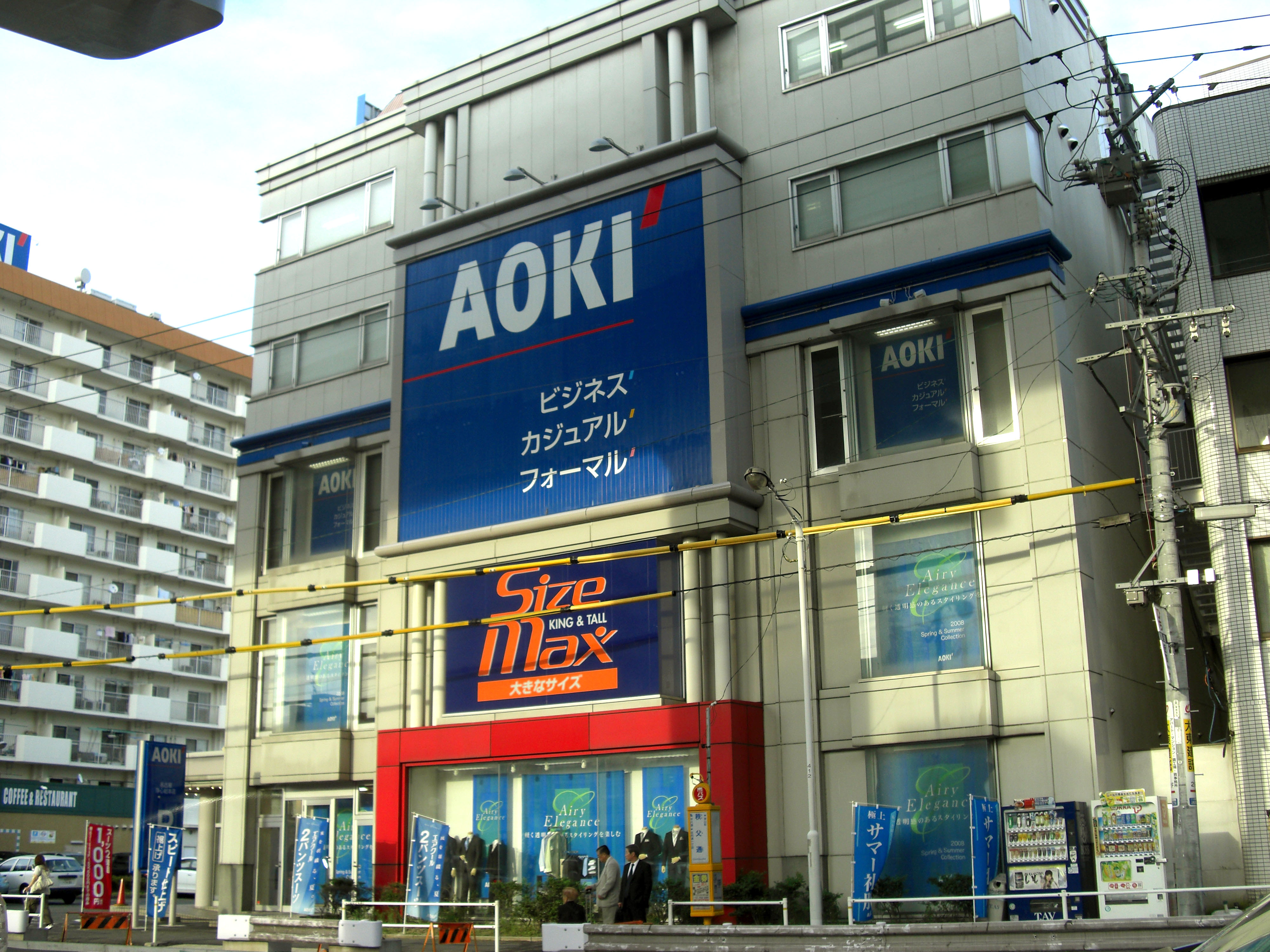 Aoki Nagoya-Joshin-Souhonten,Kaminagoya Nishi-ku Nagoya-City Aichi Japan.